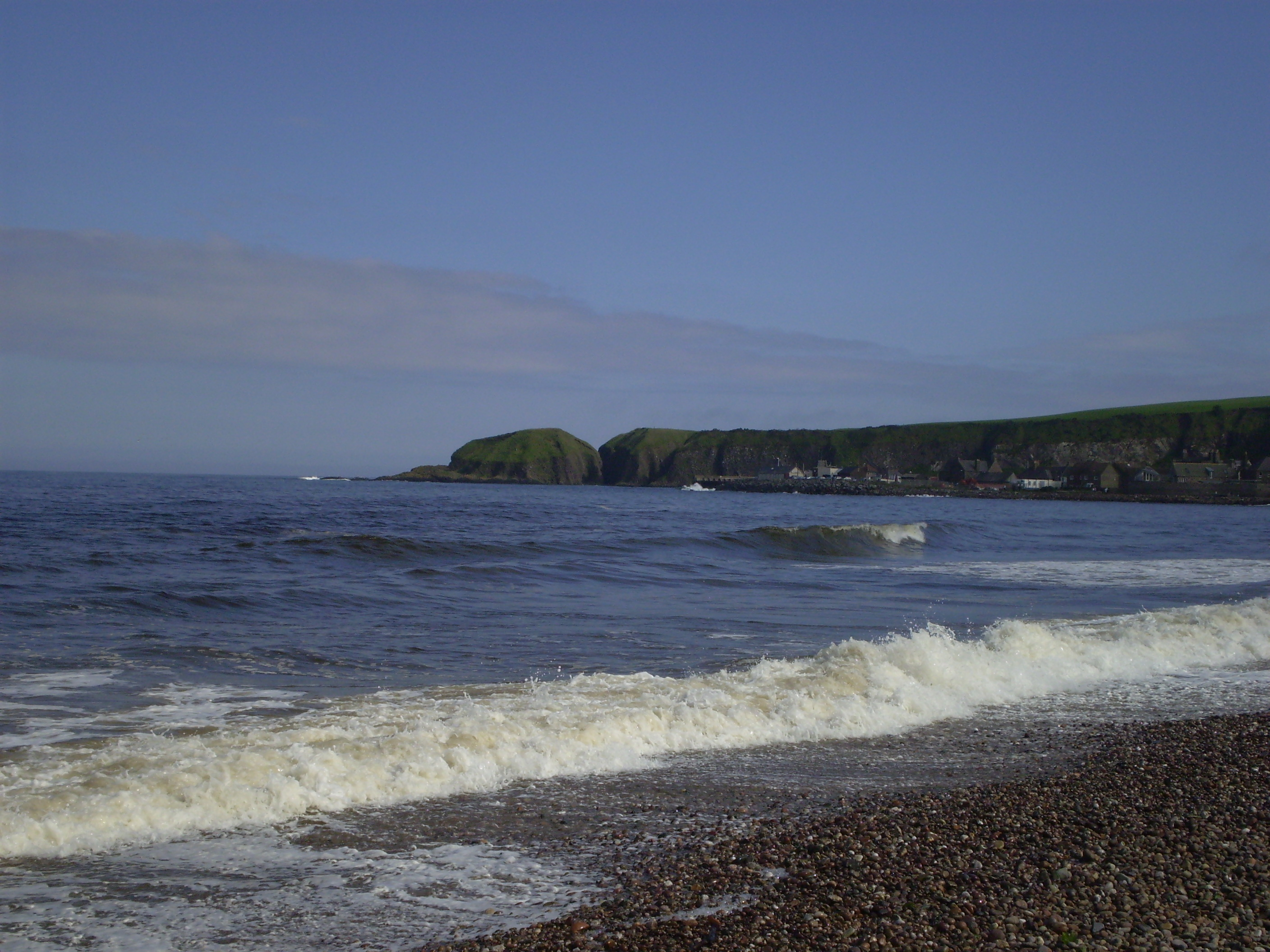 The coast of the North Sea, Stonehaven, Aberdeenshire, Scotland.